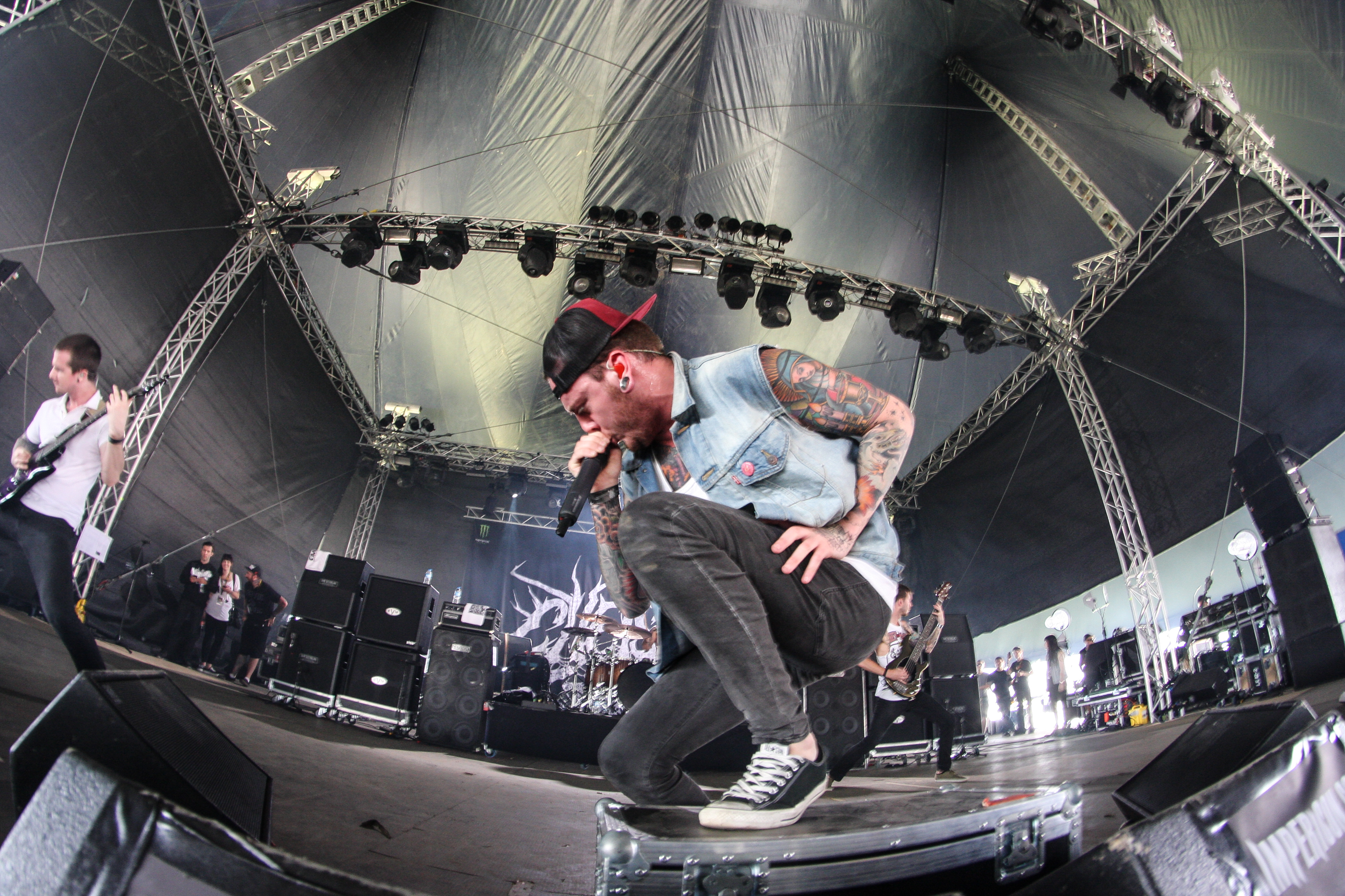 Chelsea Grin at With Full Force Festival 2013